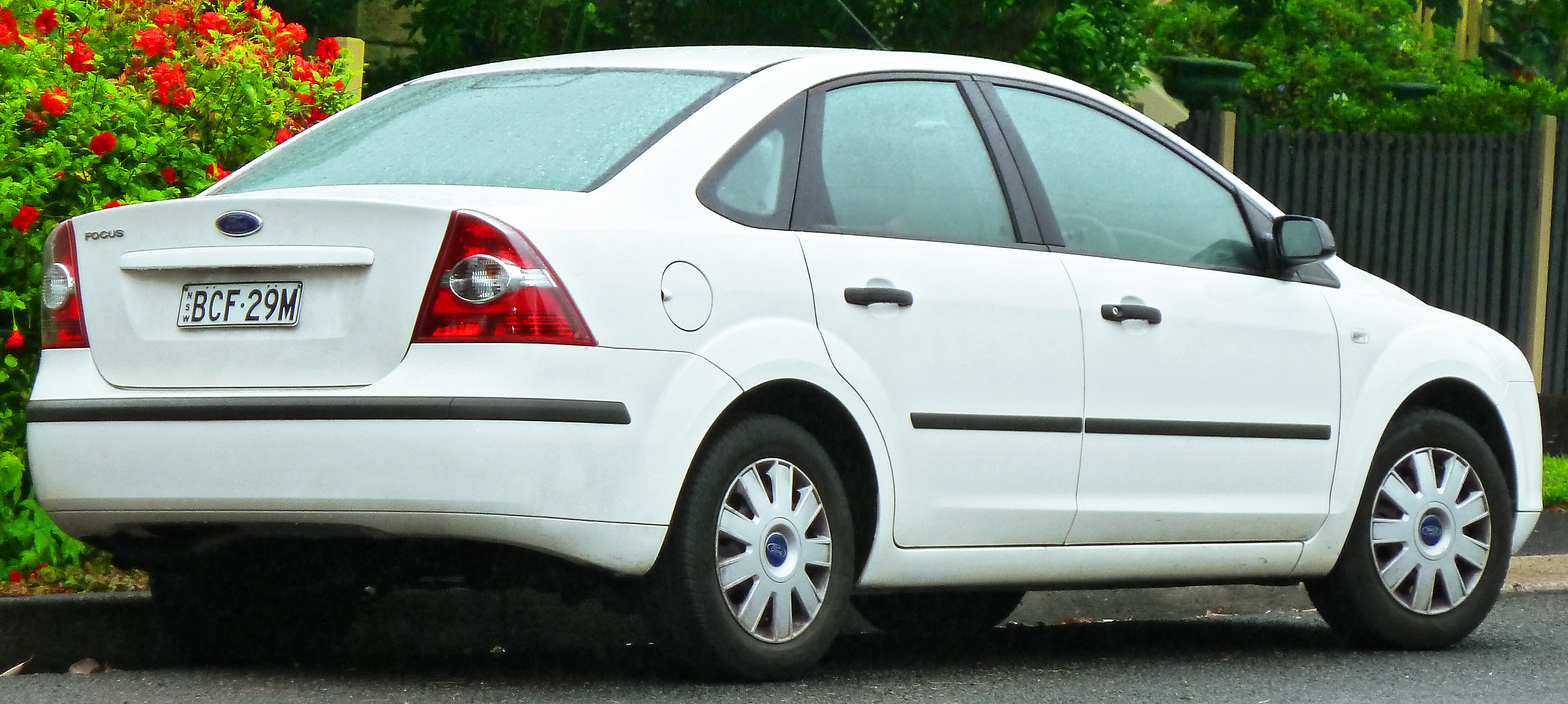 2005–2007 Ford Focus (LS) CL sedan. Photographed in Roseville, New South Wales, Australia.